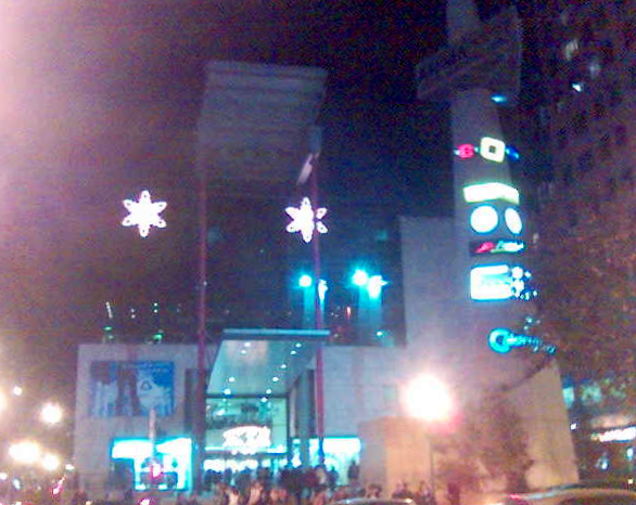 Photo of Alcalá Norte mall centre, Madrid.